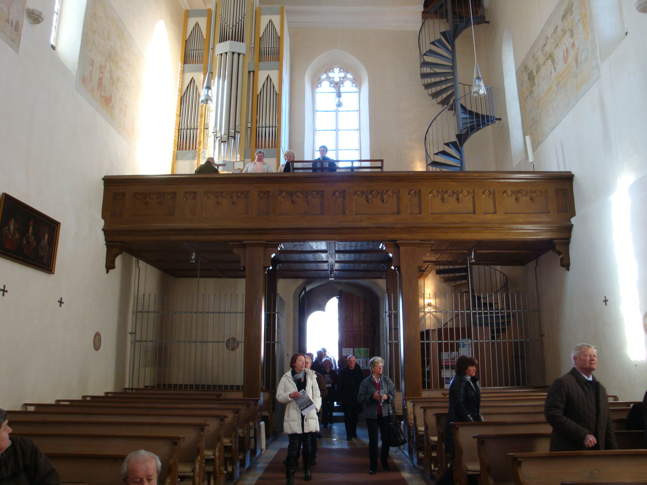 inside the church in adlersberg, look back